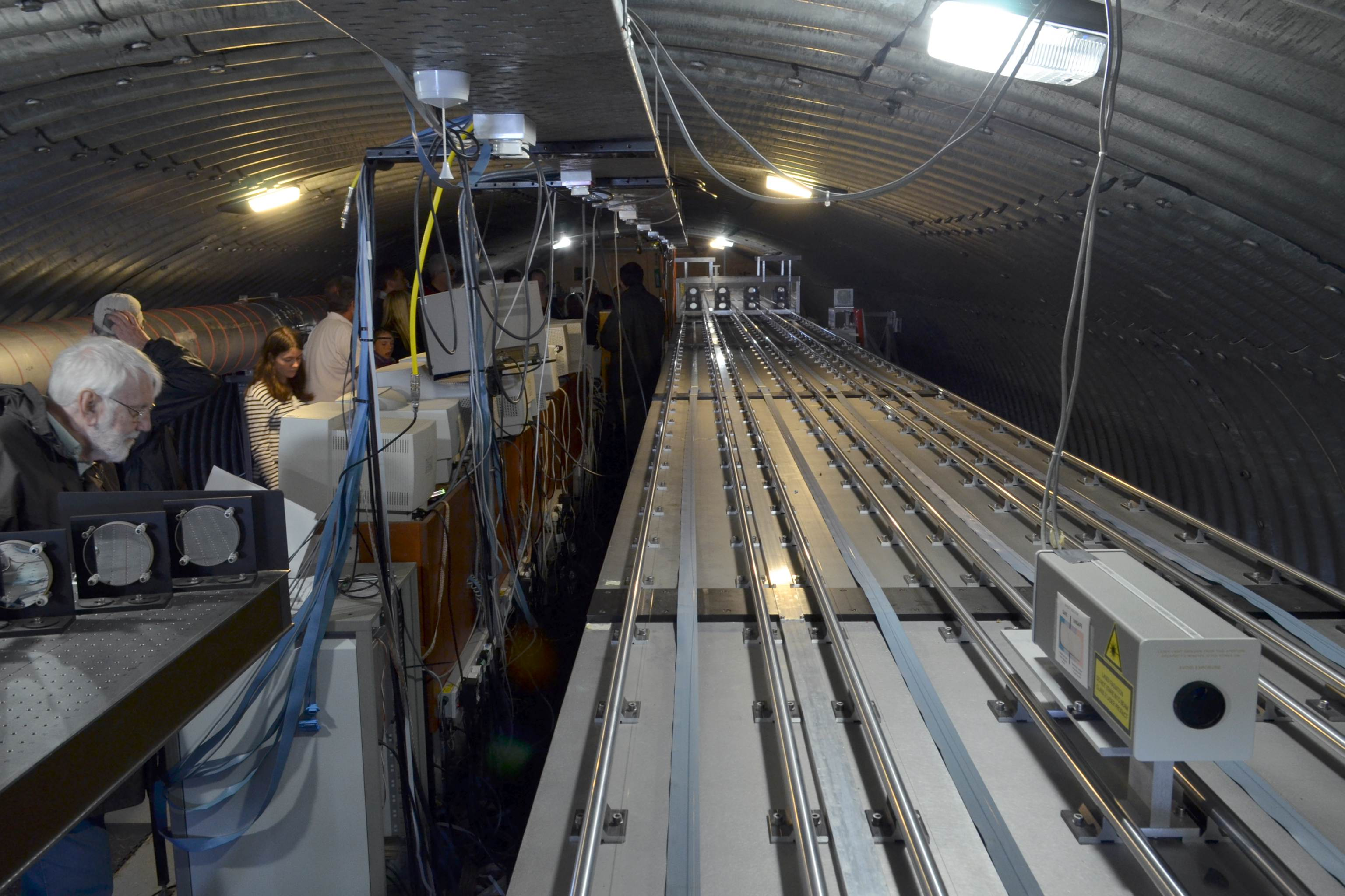 The interior of the bunker of the Cambridge Optical Aperture Synthesis Telescope at the Mullard Radio Astronomy Observatory, Cambridgeshire in June 2014.